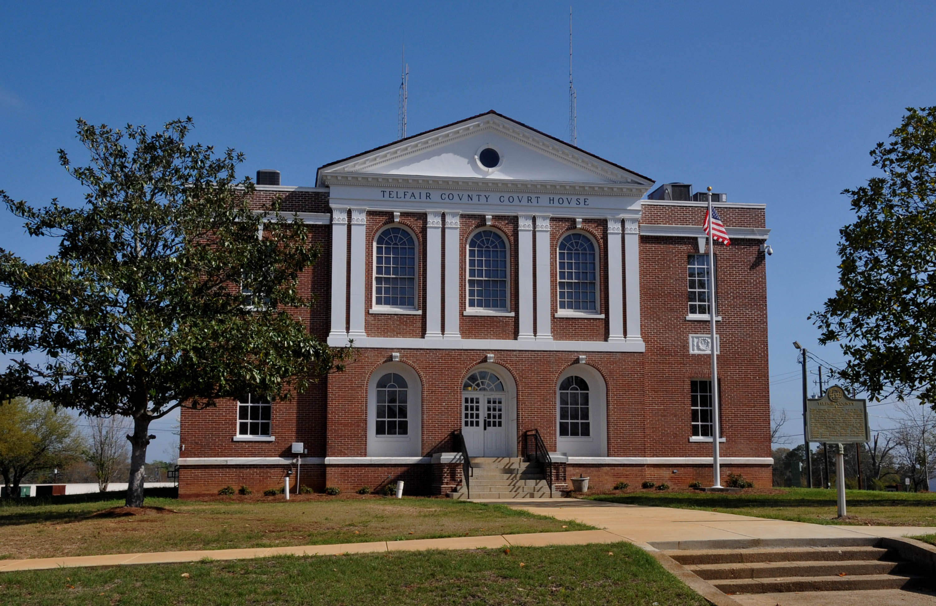 COLONIAL REVIVAL BUILT IN 1934